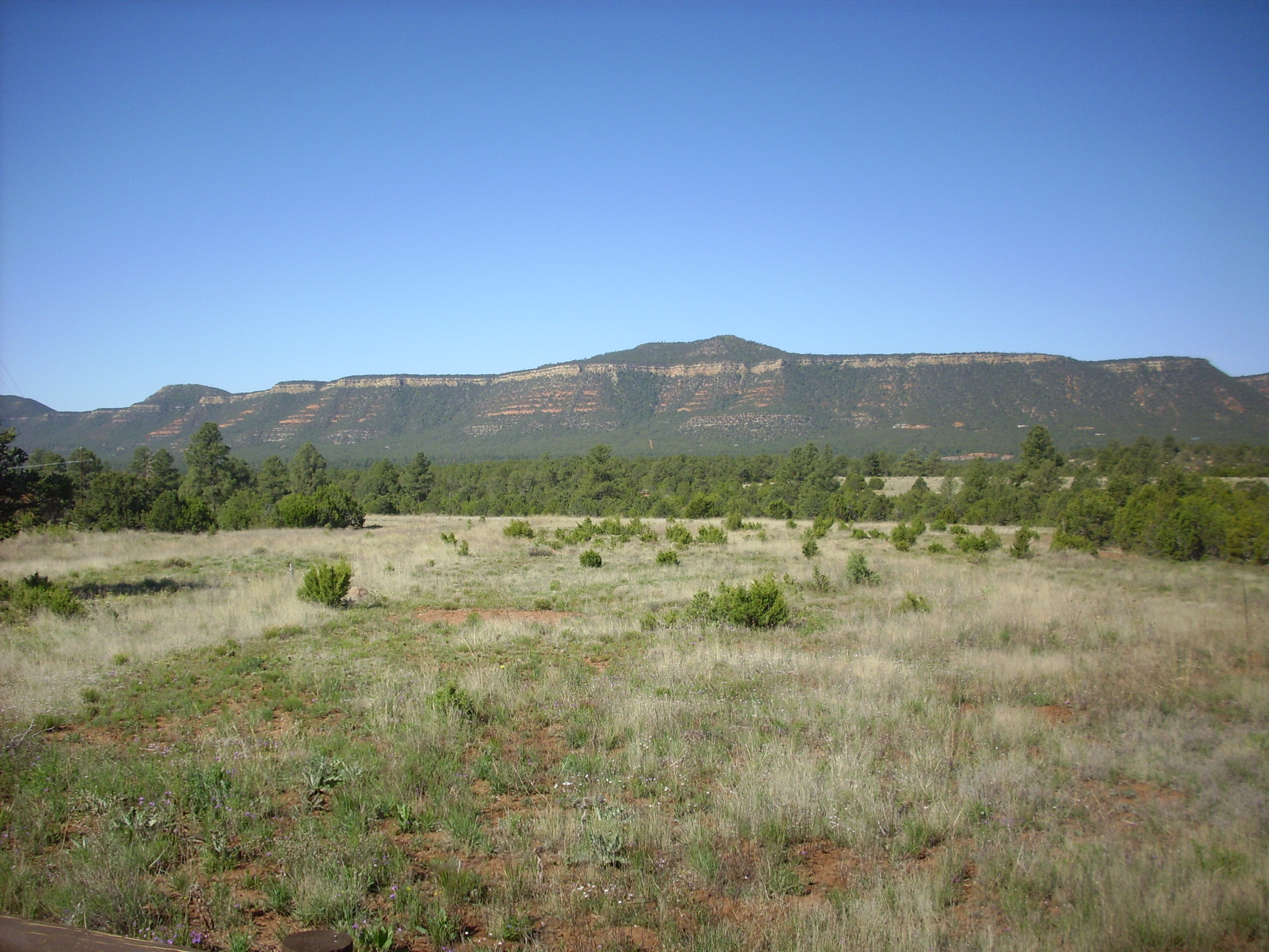 This image shows Glorieta Mesa, New Mexico, United States. The light cliffs at the top of the mesa are the Permian Glorieta formation. Beneath are red beds of theYeso Group, and the knoll on top of the mesa is underlain by the San Andres Formation.